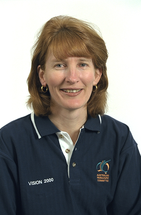 Portrait of administrator Jenni Banks, 2000 Australian Paralympic Team